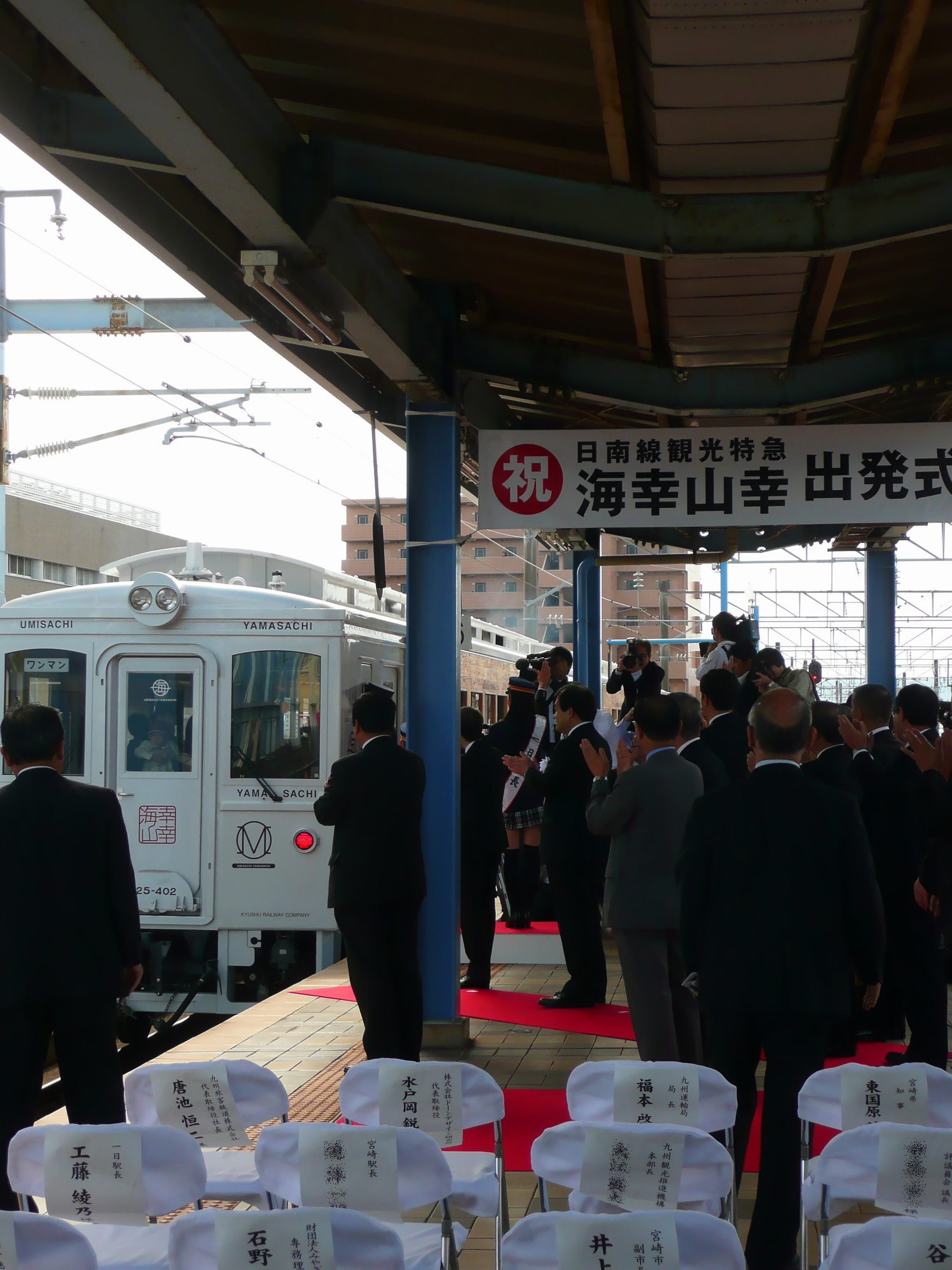 Opening Ceremony of Limited Express ""Umisachi Yamasachi" in Miyazaki Station.